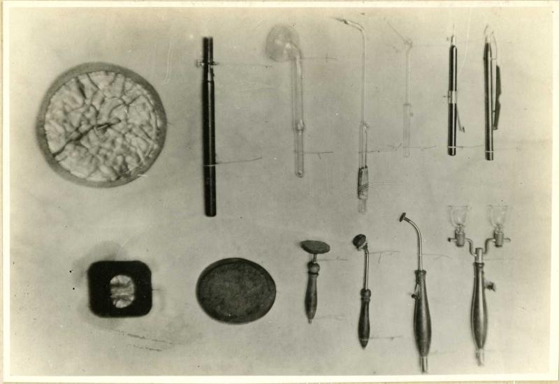 Electrodes used in electrotherapy. Believed to date post World War I.